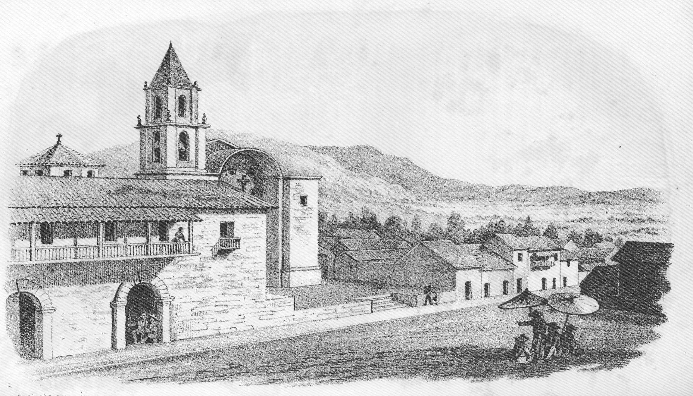 View to the South from Huanta, Peru Subject: Huanta (Peru) Geographic Subject: Peru--Huanta Tag: Coasts